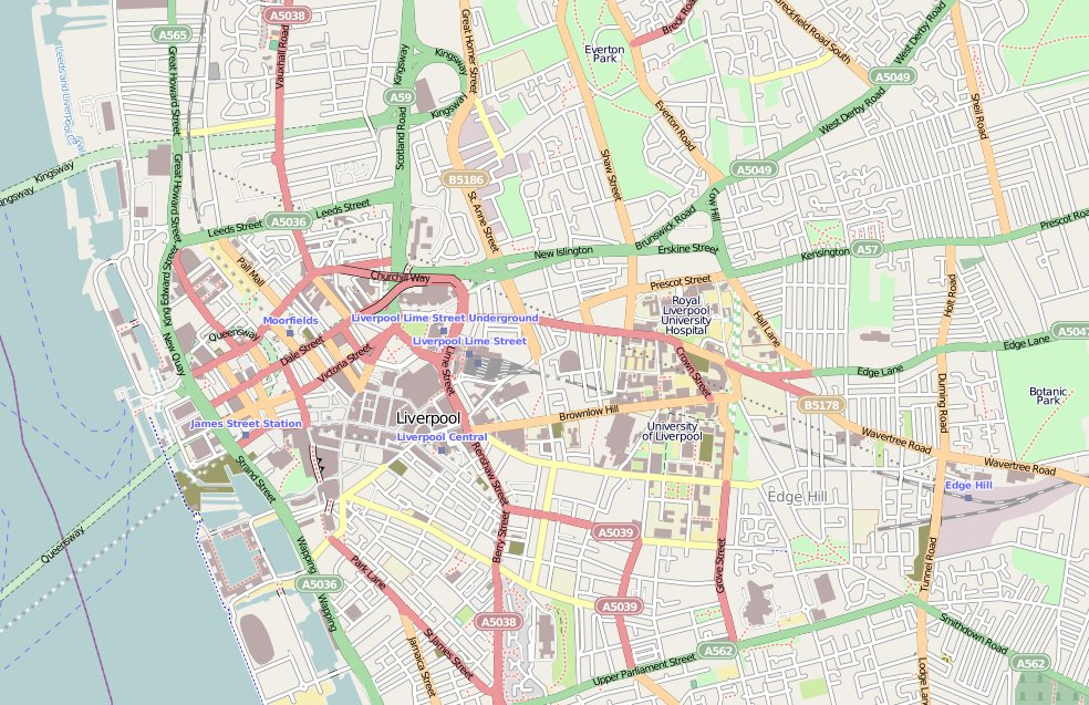 Map of Liverpool City Centre, England